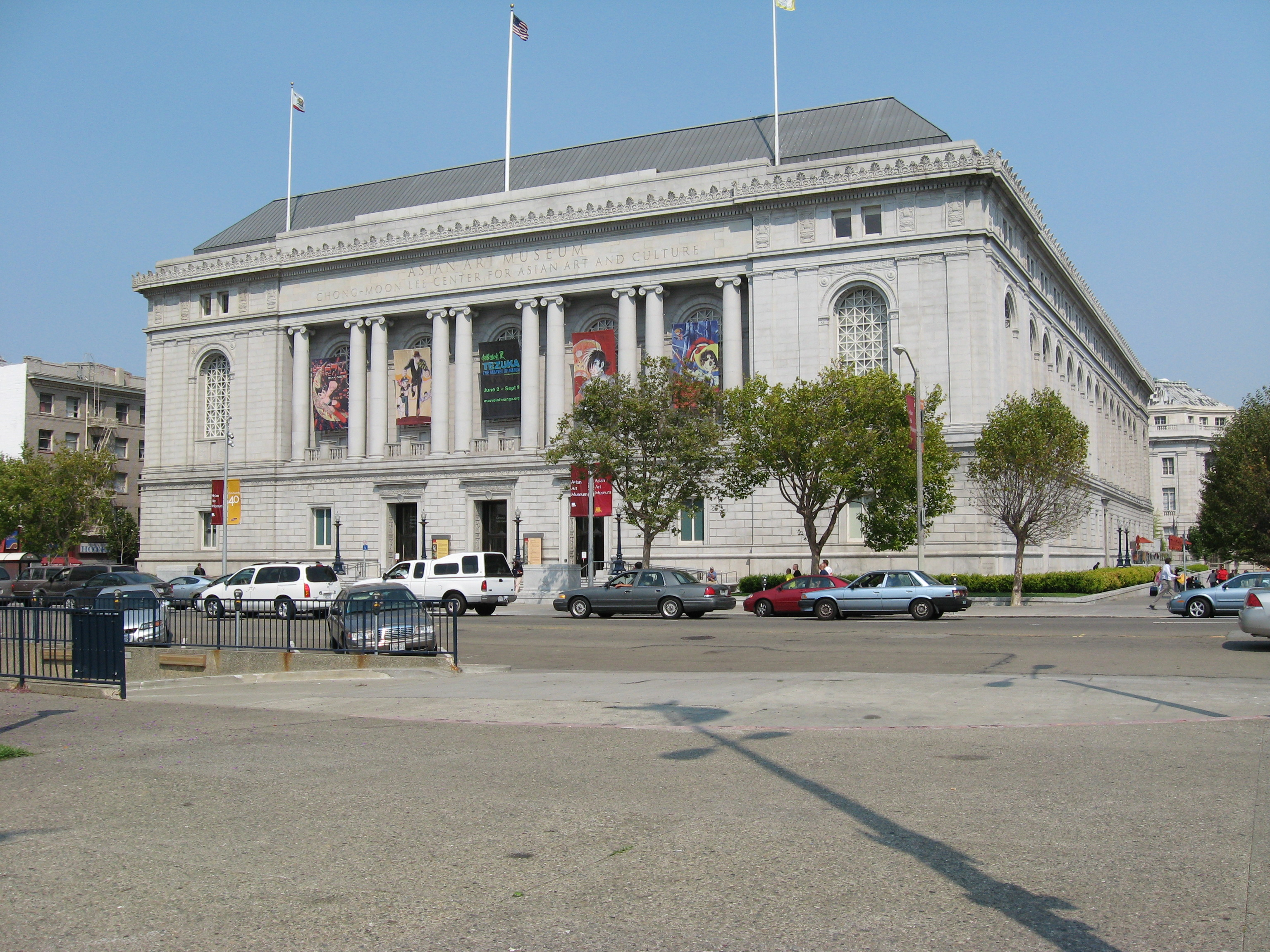 Asian Art Musium, San Francisco